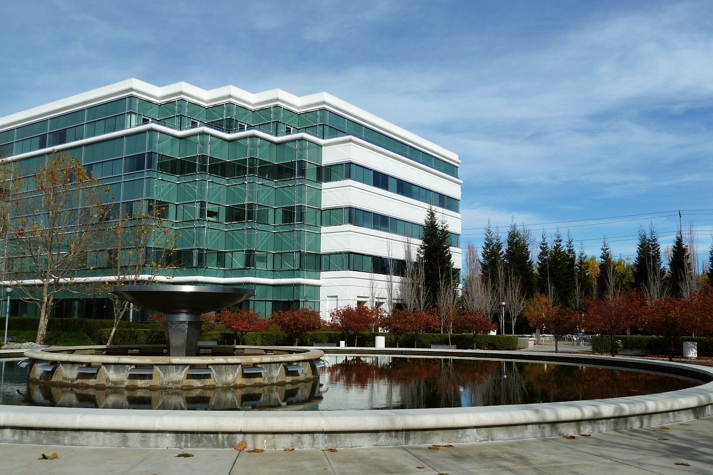 North building of Bishop Ranch 3 in San Ramon, USA